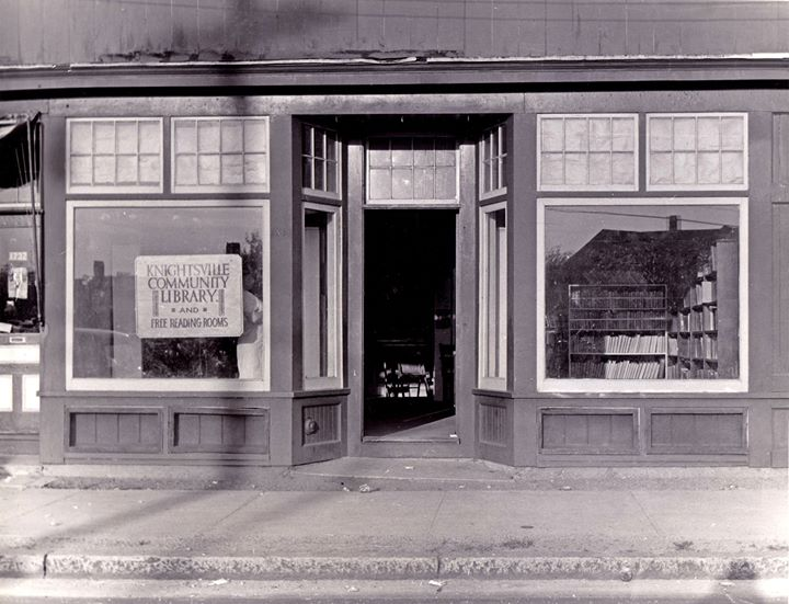 An early capture of one the many locations of the Knightsville branch library.